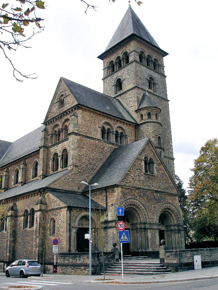 Lampertsierger Kierch, Eglise St Joseph, Limpertsberg, Luxembourg